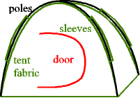 Dome tent drawing I made this myself using Micrografx Designer software. If you want to mess around with it, drop me an email and I'll try to dig up the .dsf source file and email it to you. I've rebuilt the image from scratch (well, almost). Should look much better now. -Smack 04:33 20 Jun 2003 (UTC)